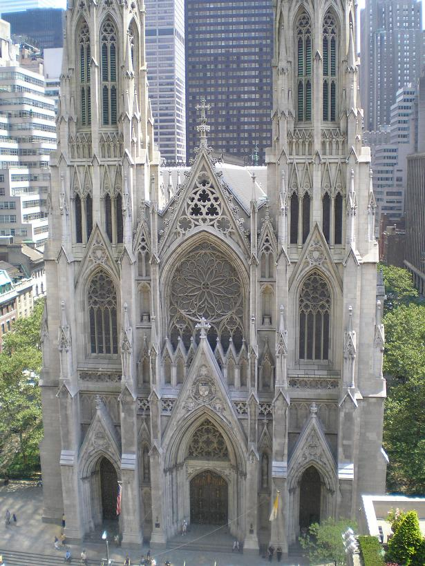 St. Patrick's Cathedral taken from 45 Rockefeller Plaza, across the street (the building with the Atlas sculpture).